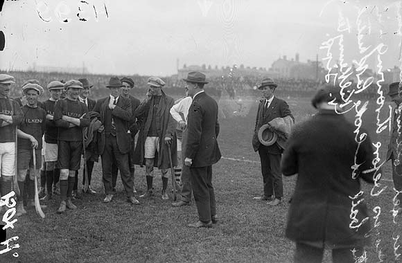 This is Michael Collins talking to Kilkenny hurlers before the 1921 Senior Hurling Championship match against Dublin at Croke Park. Dublin beat Kilkenny 4-4 to 1-5 in front of 17,000 spectators. Michael Collins threw in the ball to start the game. The Irish Independent (Monday, 12 September 1921) reported that: "Mr. Frank Walsh, the American representative, asked during the game what he thought of it remarked naively: "It is too fast to follow". This was a fitting description of the first half, when quite a large number of hurleys were broken." Date: Sunday, 11 September 1921 NLI Ref.: INDH399